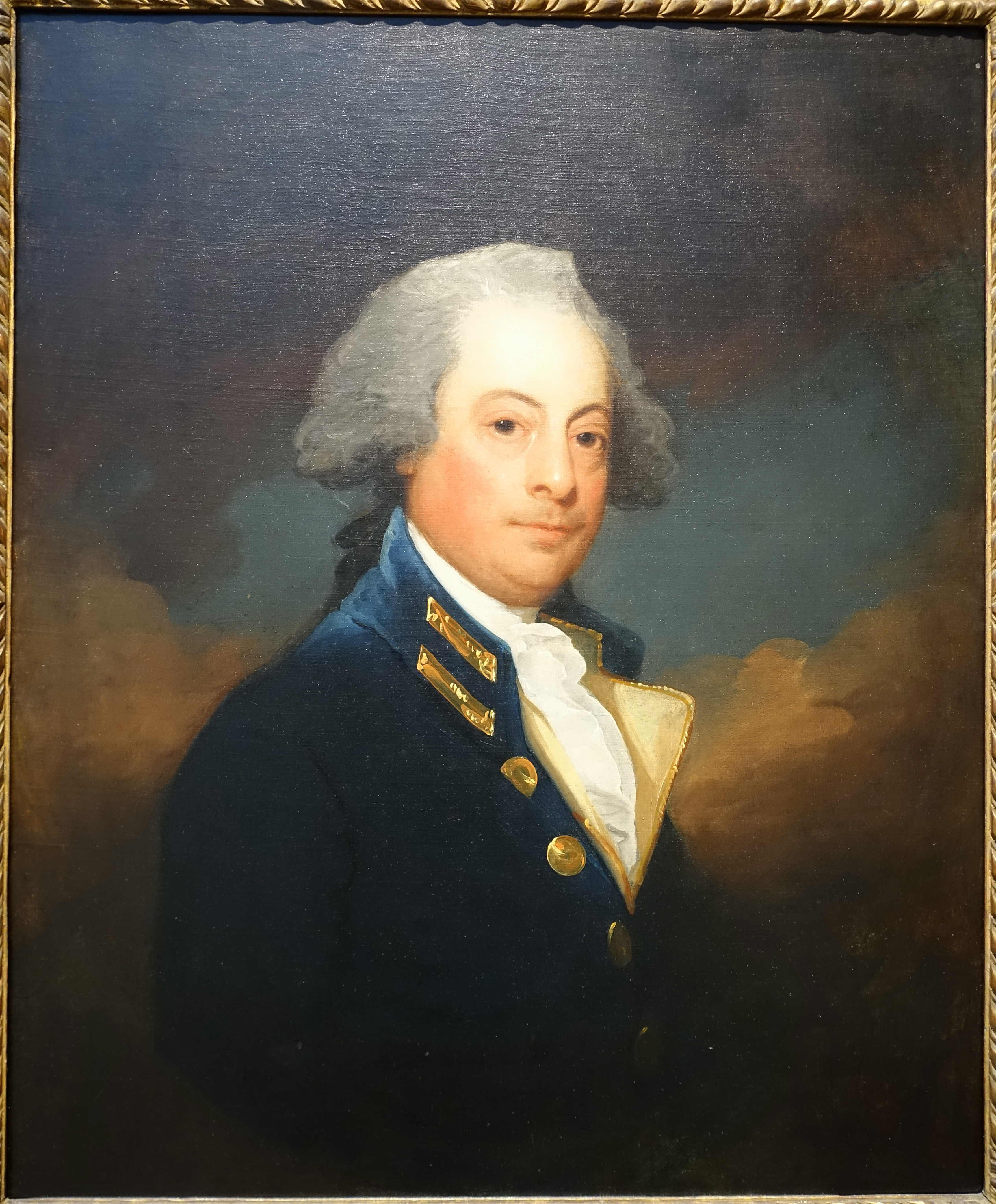 Exhibit in the Portland Art Museum - Portland, Oregon, USA.